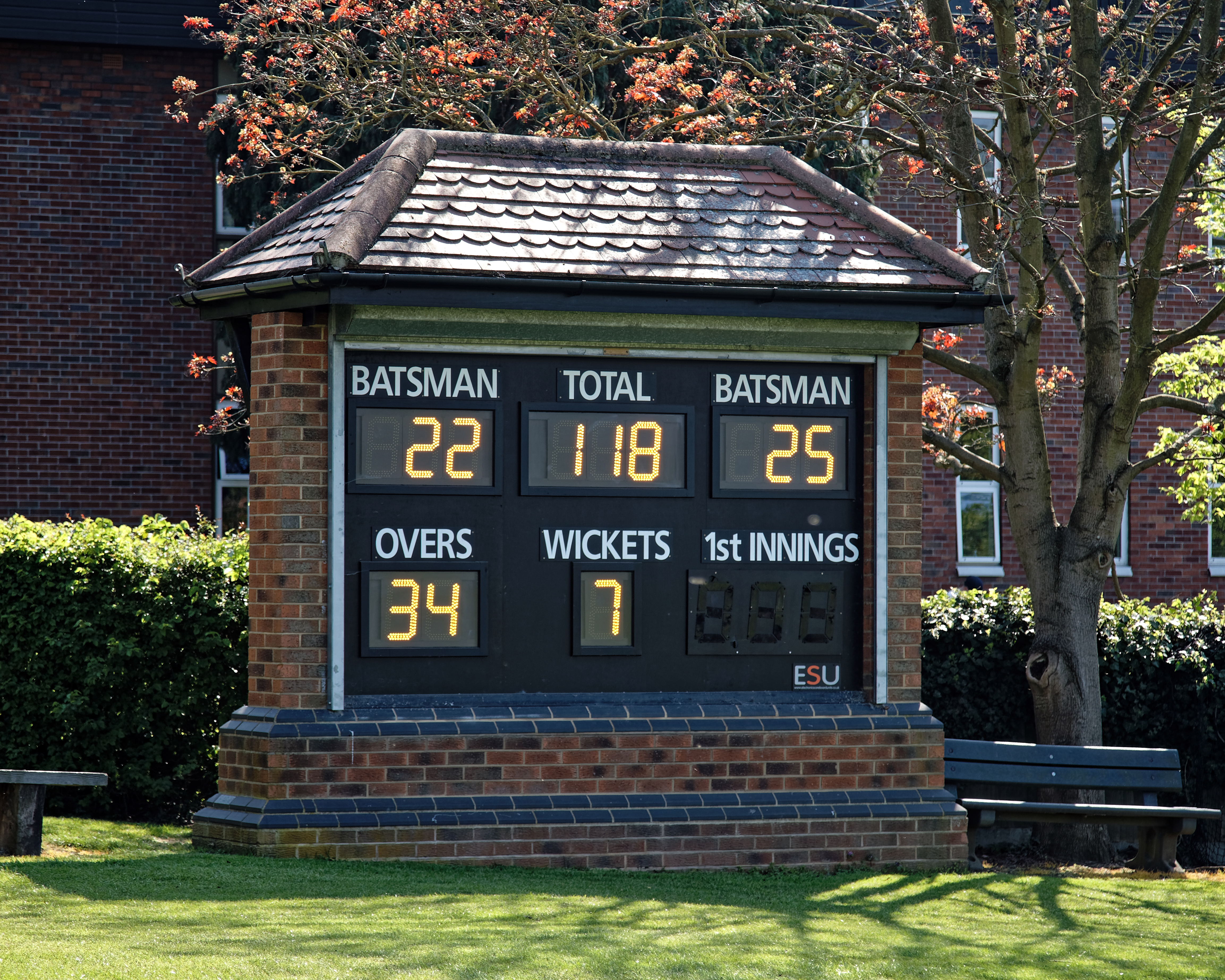 Cricket ground scoreboard during a Saturday early season public cricket match between Loughton Cricket Club 1st XI and Ardleigh Green & Havering-Atte-Bower Cricket Club 1st XI, at Loughton, Essex, England, in 2019. Both teams play in the Shepherd Neame Essex League.Mobile device view: Wikimedia (as at 2019) makes it difficult to immediately view photo groups related to this image. To see its most relevant allied photos, click on Loughton Cricket Club, Ardleigh Green & Havering-Atte-Bower Cricket Club, and this uploader's Cricket photos. You can add a beta click-through 'categories' button to the very bottom of photo-pages you view by going to settings... three-bar icon top left.Desktop view: Wikimedia (as at 2019) makes it difficult to immediately view the helpful category links where you can find images related to this one in a variety of ways; for these go to the very bottom of the page.This image is one of a series of date and/or subject allied consecutive photographs kept in progression or location by file name number and/or time marking.Camera: Canon EOS 6D Mark II with Canon EF 24-105mm F4L IS USM lens.Software: File lens-corrected, optimized, perhaps cropped, with DxO PhotoLab, and likely further optimized with Adobe Photoshop CS2.